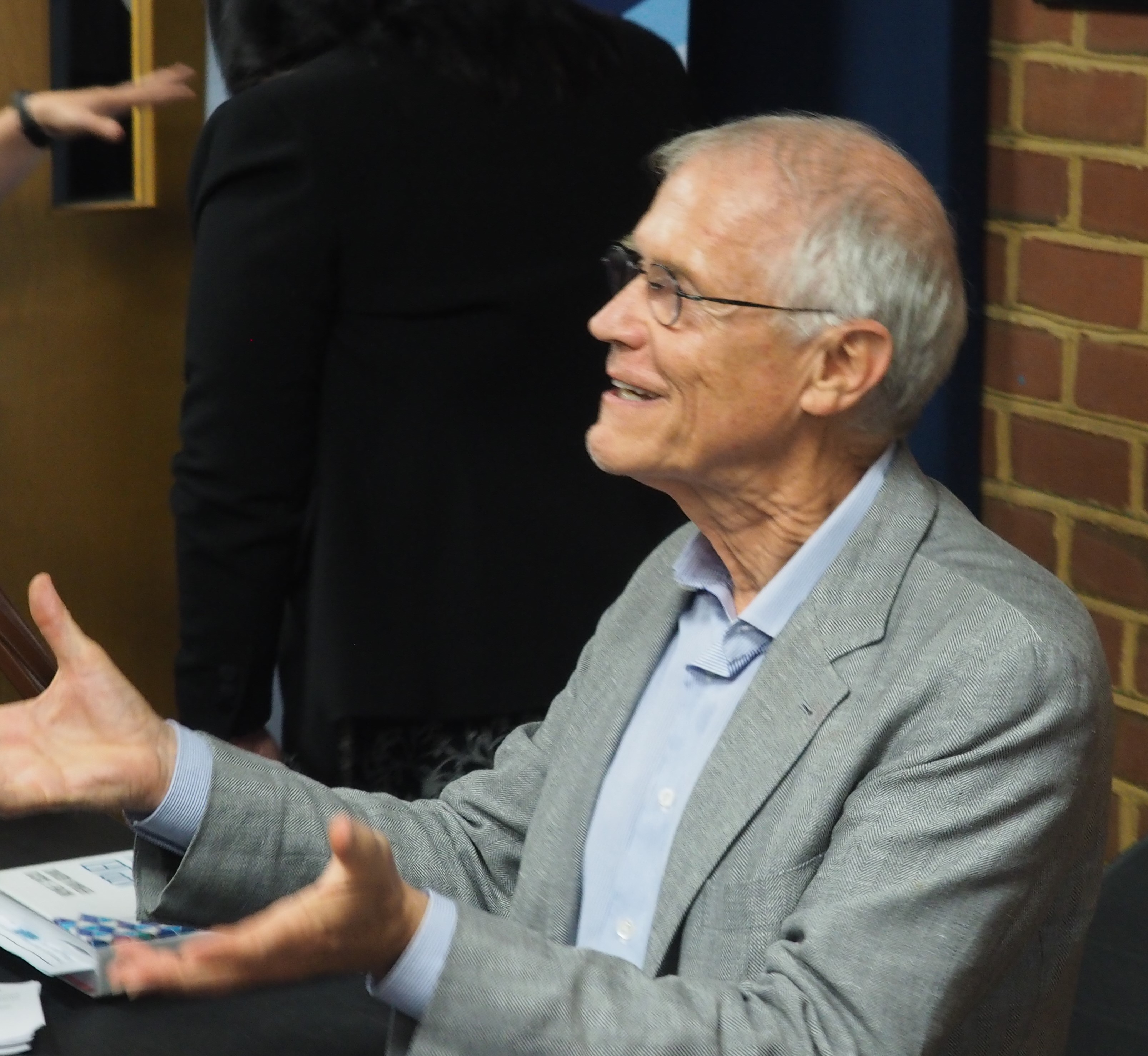 reading at 2018 Fall for the Book